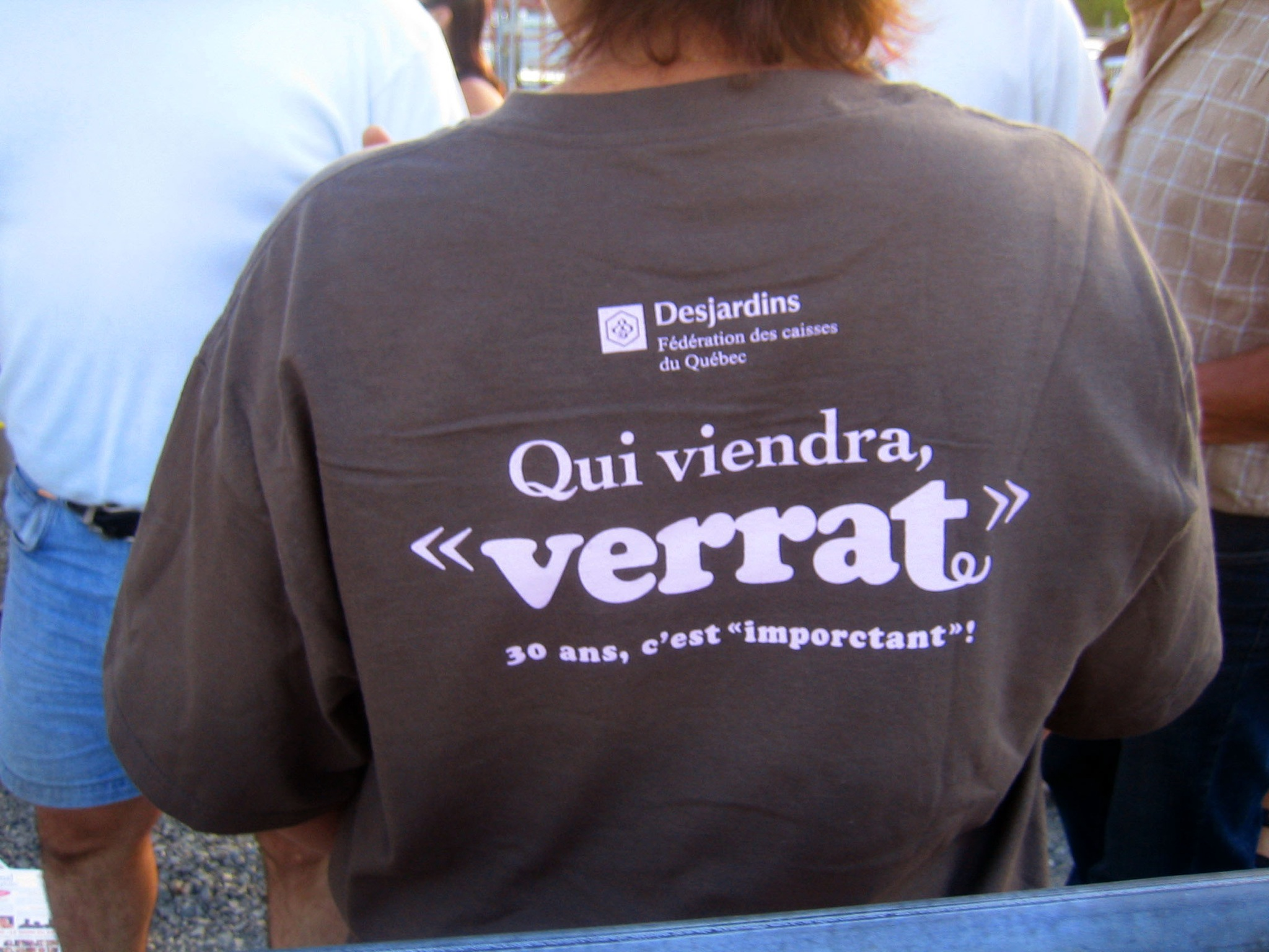 Hilarious puns in French on a reveller's shirt at the 30th Festival du cochon ("Pig Festival") de Sainte-Perpétue, in Sainte-Perpétue, Québec, 4 August 2007.